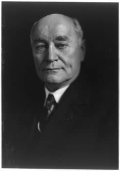 Picture of James Brown Scott